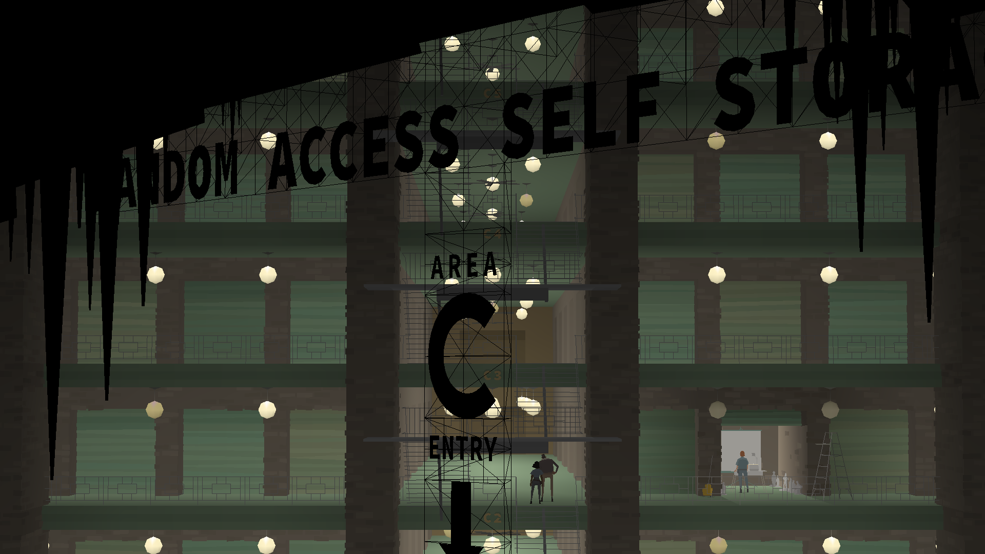 Screenshot of the game Kentucky Route Zero.